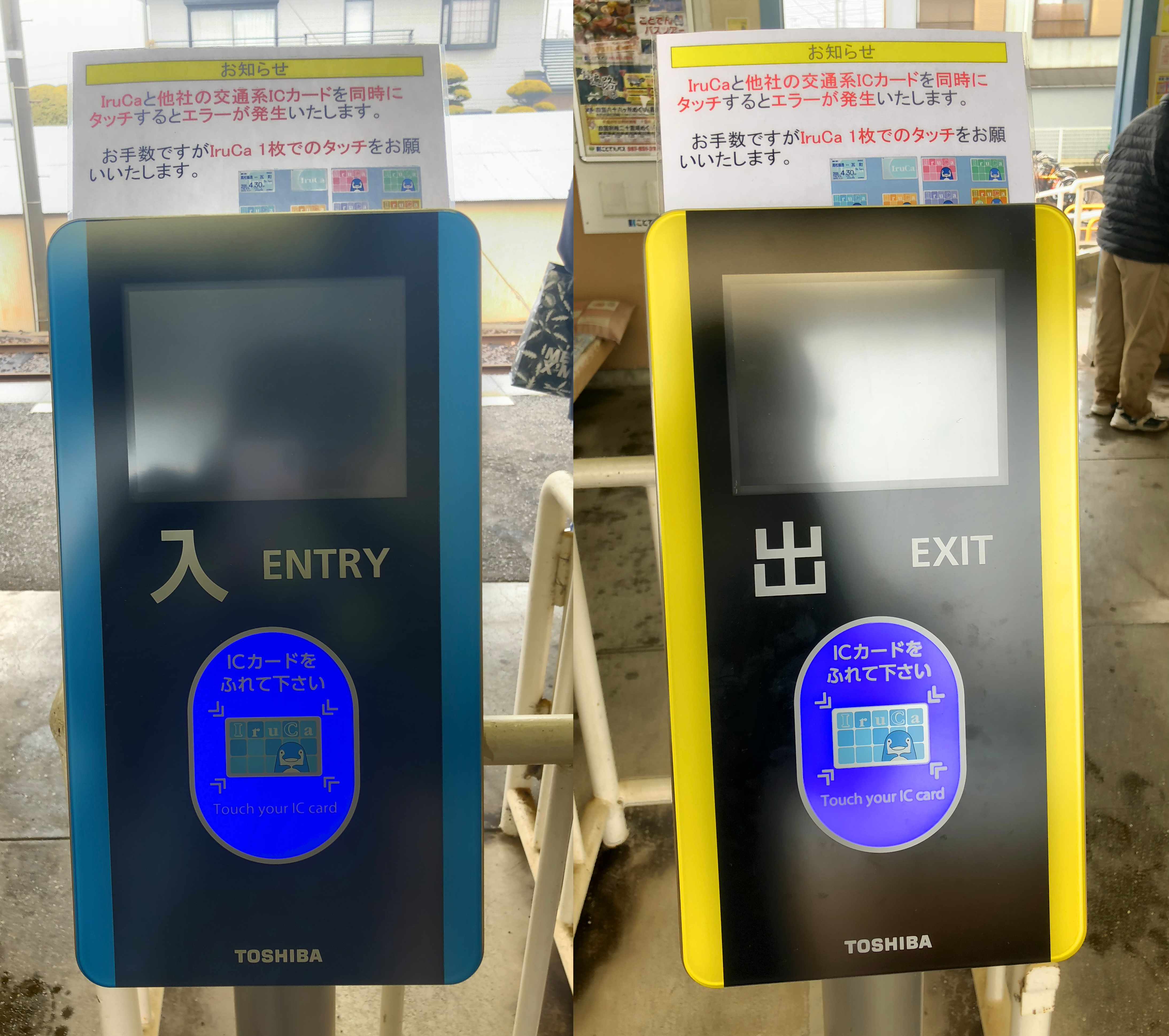 Takamatsu Kotohira Electric Railroad Simple IruCa Leader (Left for entry, Right for exit for other companies' cards)